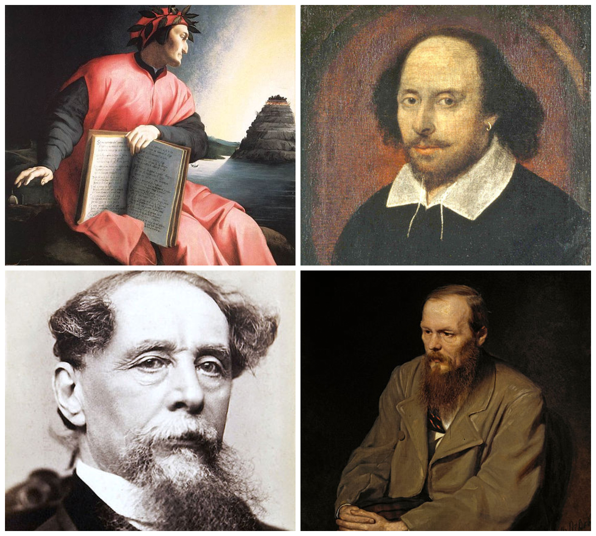 Christian Novelists. Anyone can use these original photos themselves among others and make another collage of (Christians) themselves or remix as they wish, as long as they give the correct source and usage/Copyright given. Dont delete the photos, if one becomes unusable due to copyright, please dont delete, just replace the photo or i will.